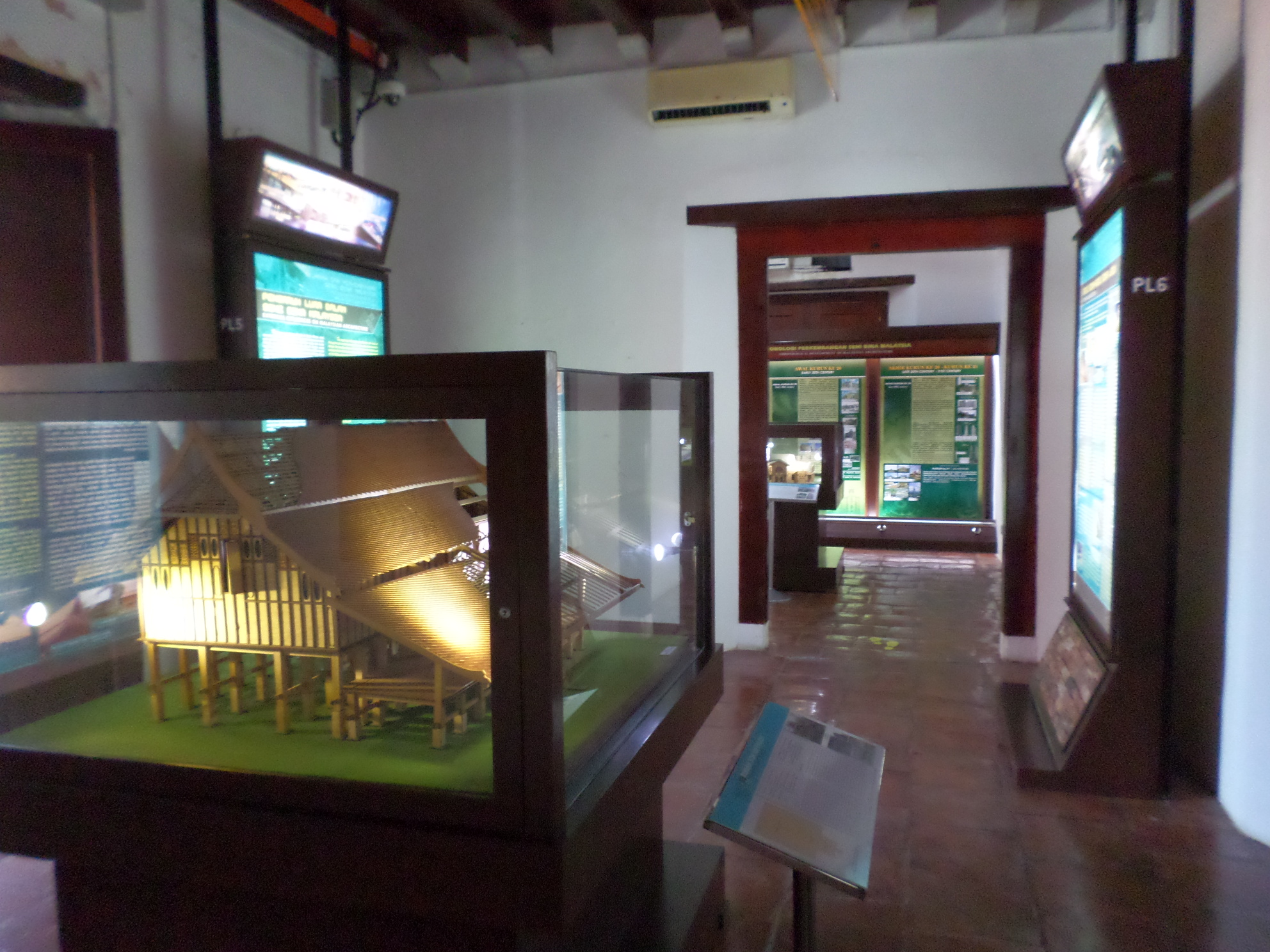 Malaysia Architecture Museum, Malacca, MalaysiaBahasa Melayu: Muzium Seni Bina Malaysia, Melaka, Malaysia